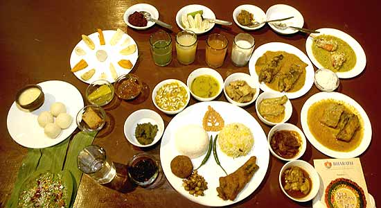 different type of bengali food